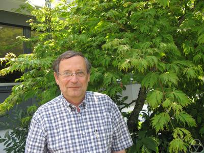 Stephen Lichtenbaum at Oberwolfach for Algebraic K-Theory and Motivic Cohomology occasion